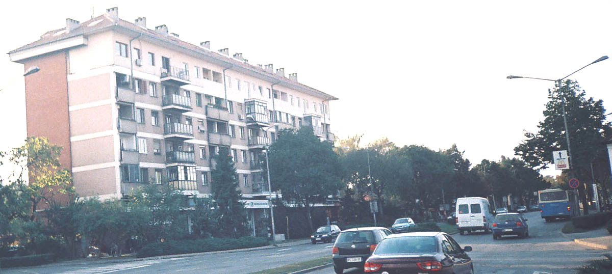 Image of Petrovaradin (self made) Category:Novi Sad images